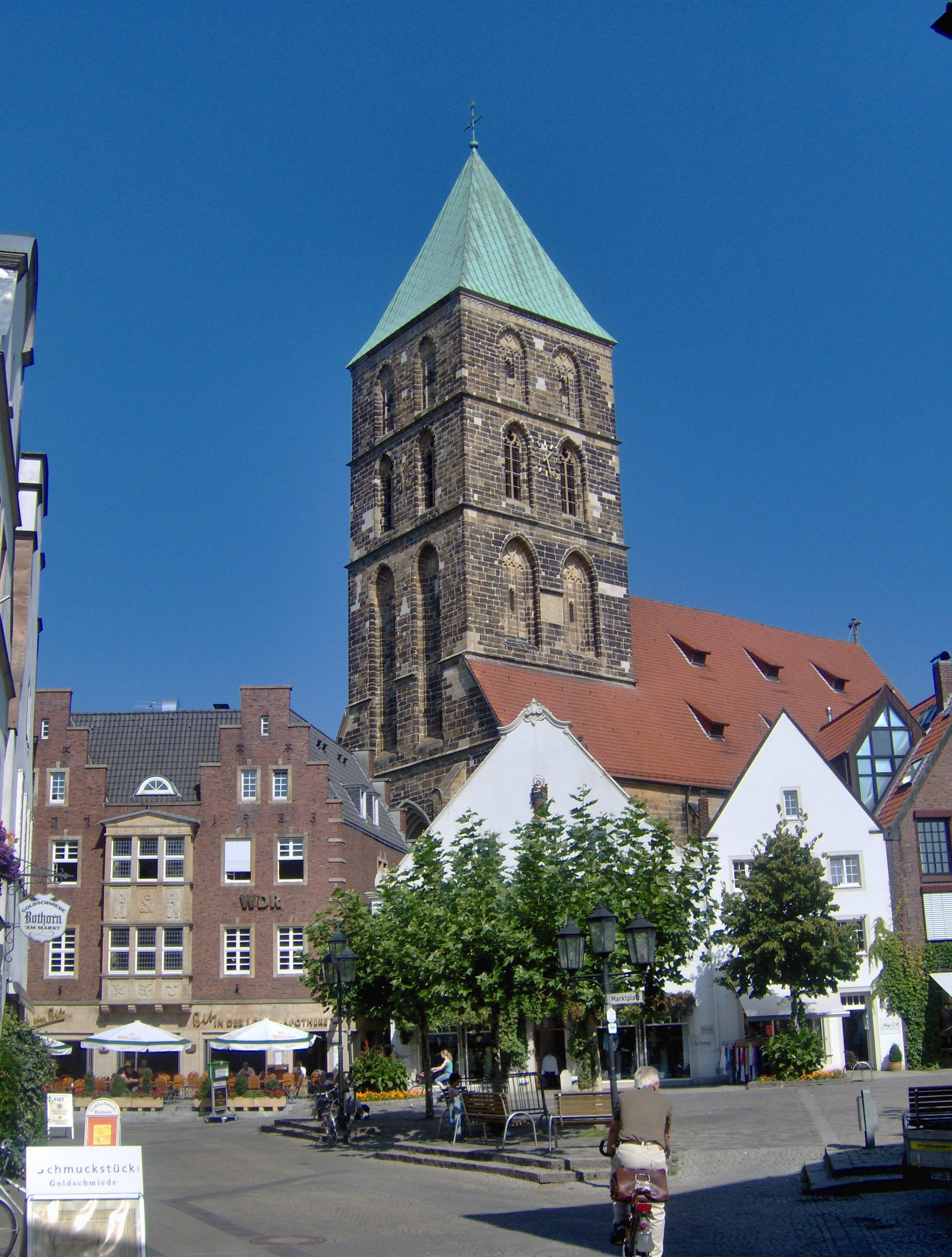 The Marktplatz, market place, with in the background the city church Sankt Dionysus in Rheine in North Rhine-Westphalia, Germany